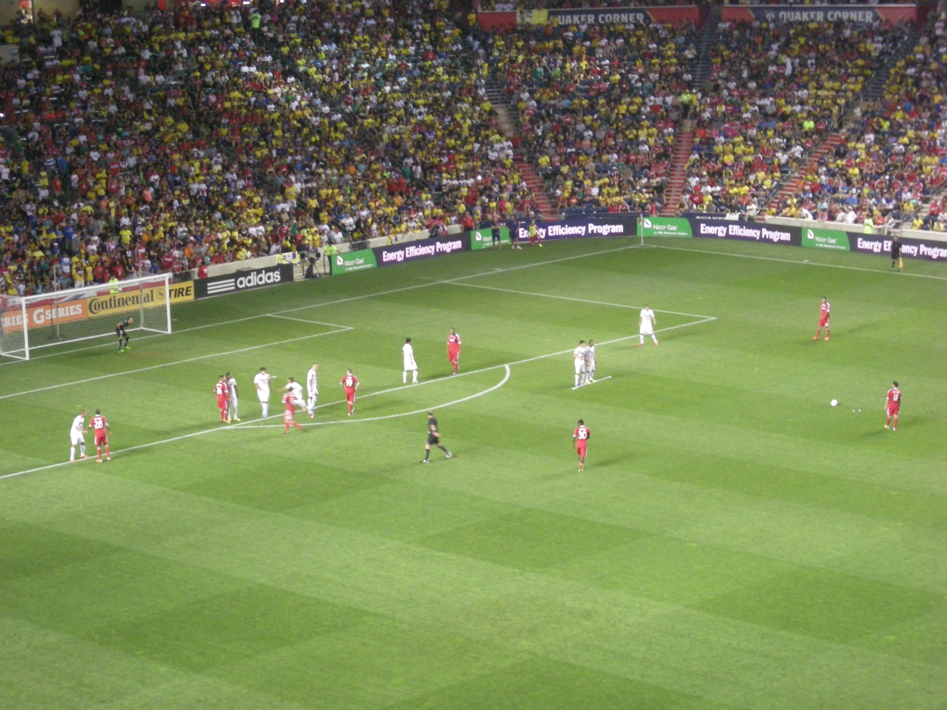 Second-half action during the friendly match between the Chicago Fire and Club América at Toyota Park in Bridgeview, Illinois (United States). Final score: Chicago 2 – 3 América.